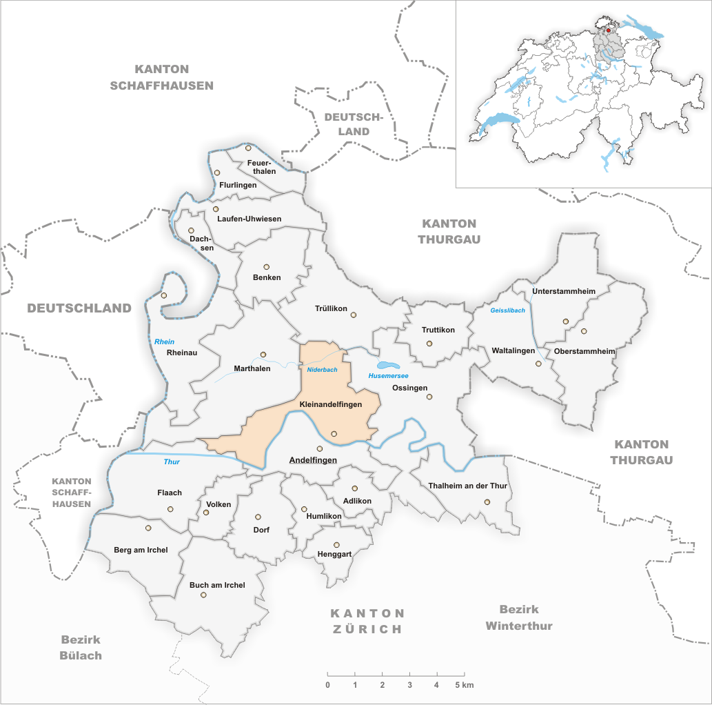 Municipality Kleinandelfingen